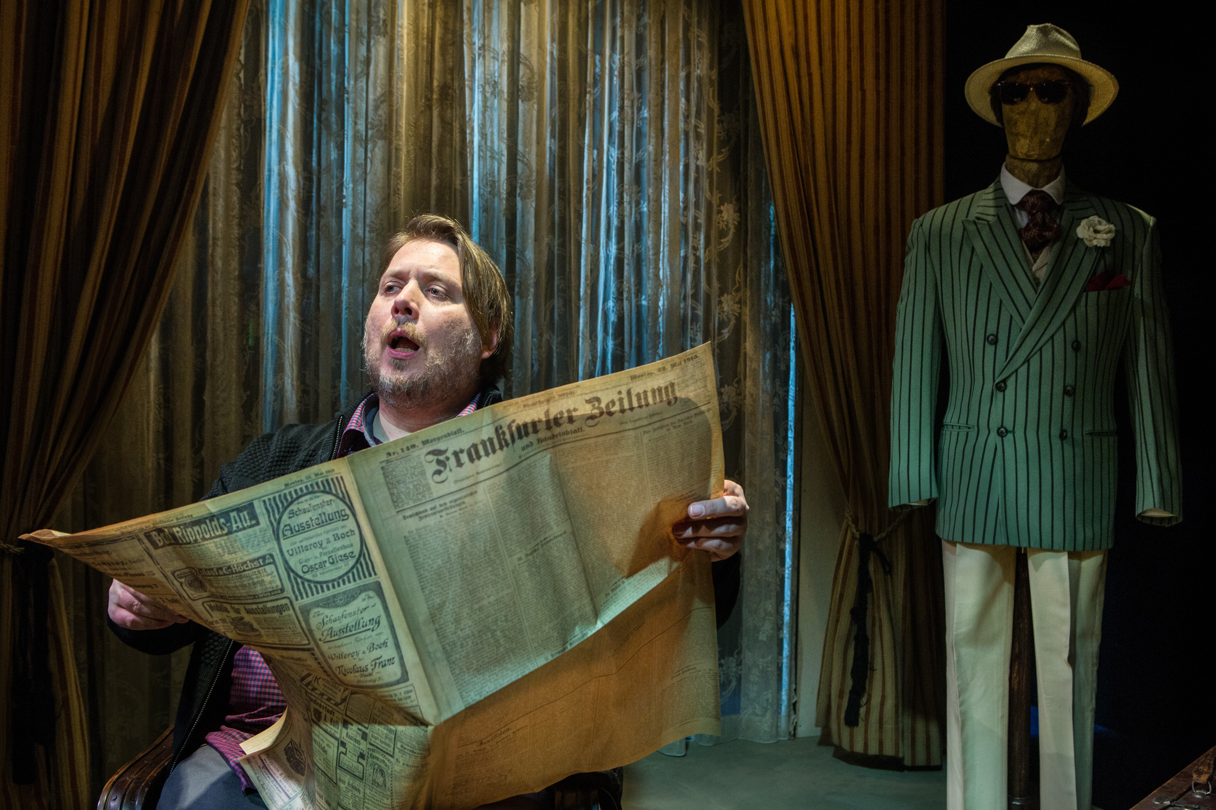 Nicolas Bro in the Copenhagen theater Folketeatret's production of the play "Døden i Venedig - Drengen i Venedig" based on the novel "Death in Venice" by Thomas Mann.